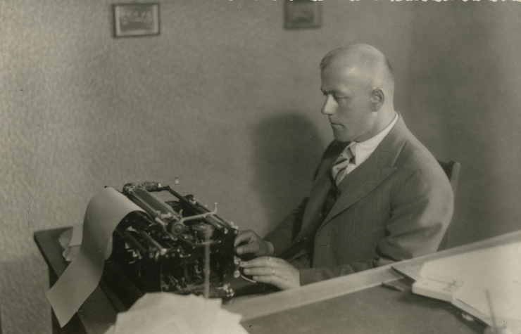 Journalist and politician from Northern Finland. 1891–1963